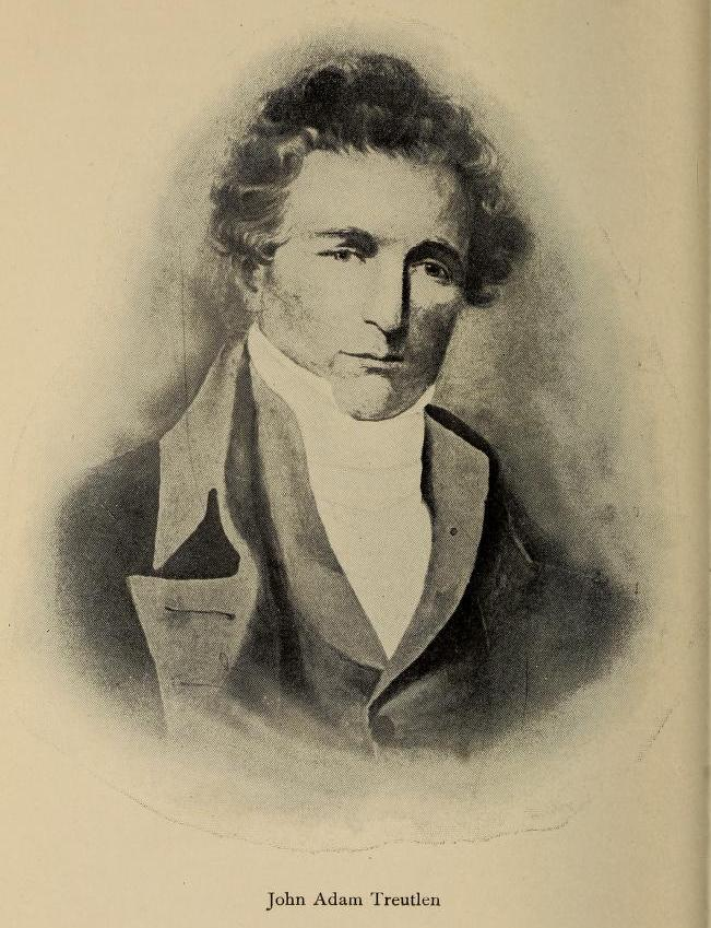 John Adam Treutlen, Georgia's first constitutional governor.